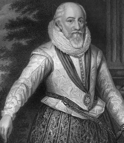 Edward Somerset, 4th Earl of Worcester (bef 1568 - 1628)